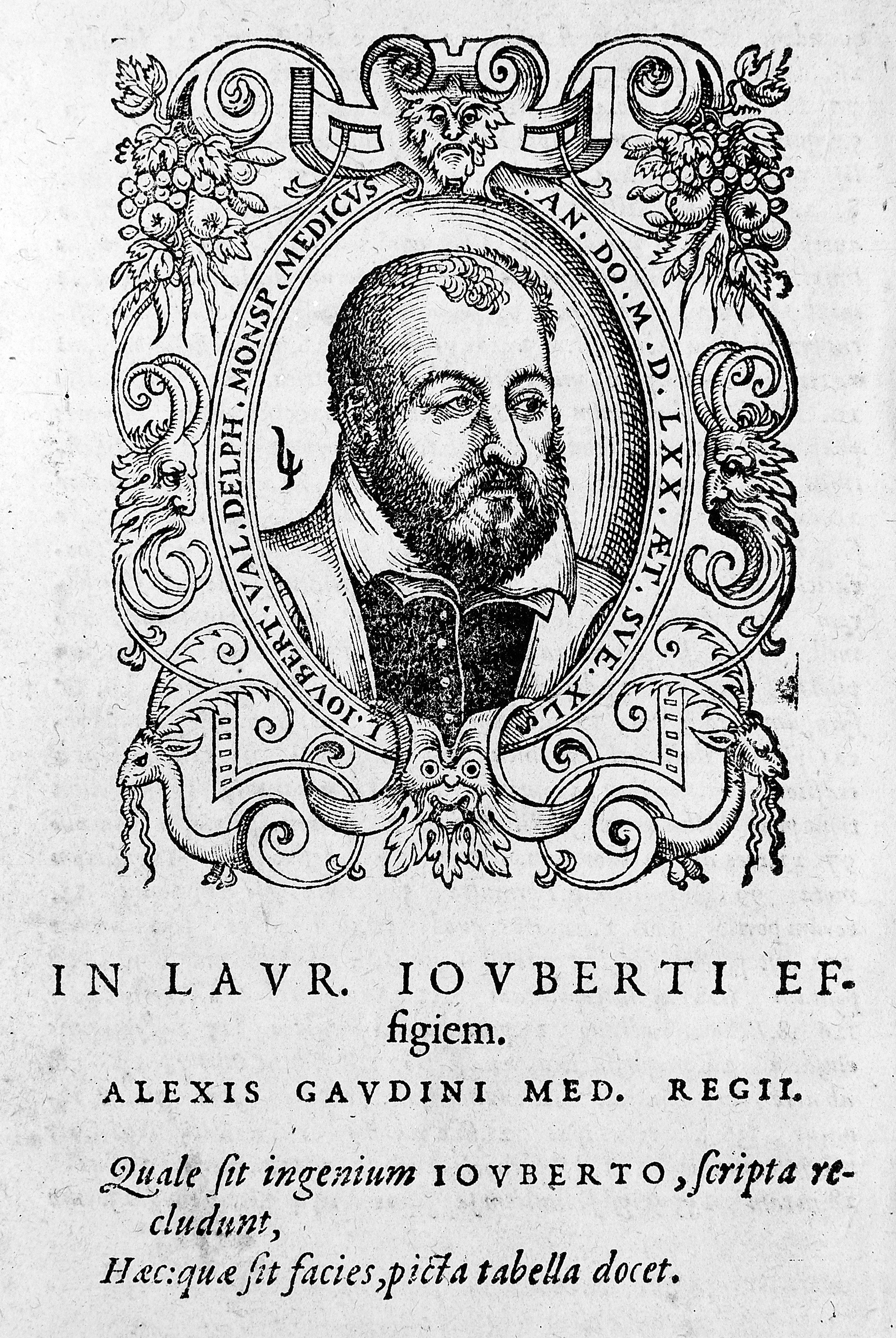 Portrait of Joubert Laurent, a famous teacher of medicine at the University of Montpellier. Wellcome Images Keywords: Laurent Joubert